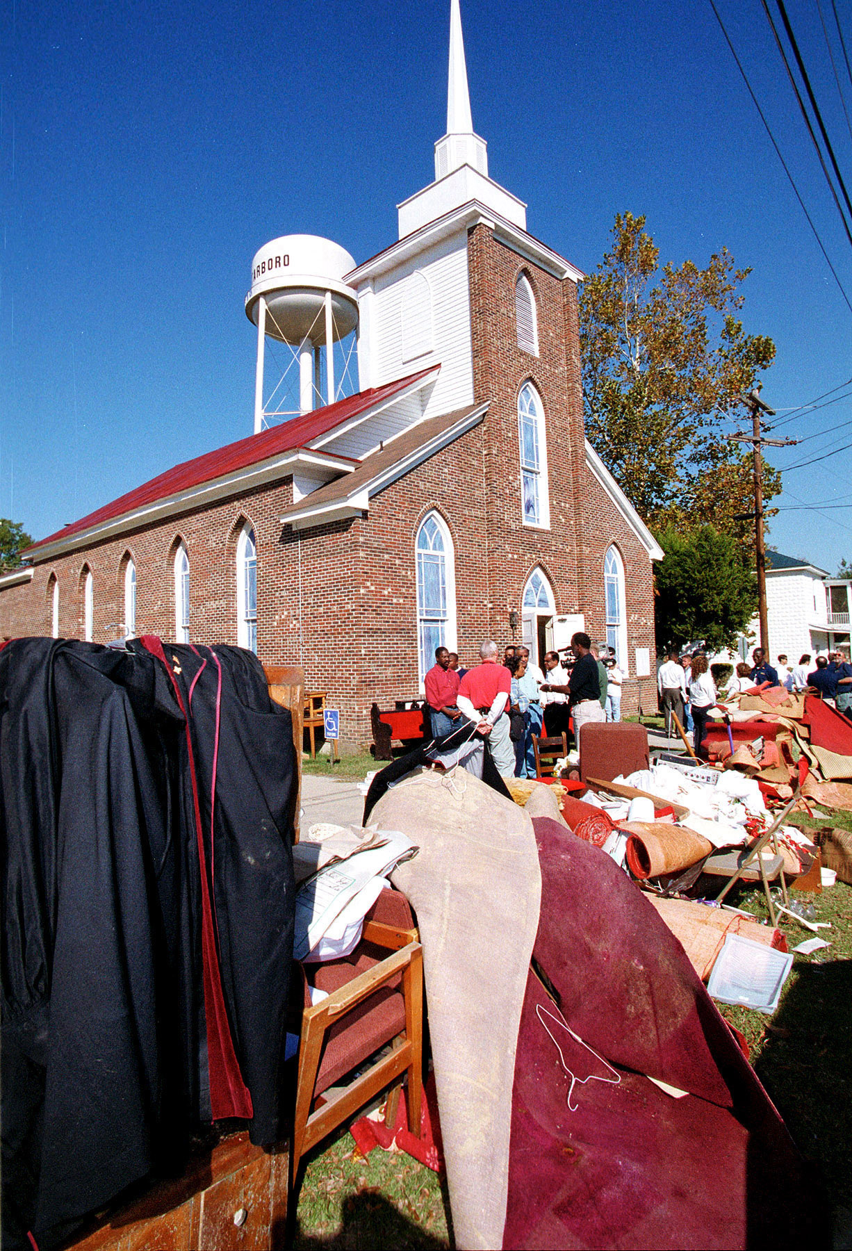 Tarboro, NC, November 7, 1999 -- The inside of the beautiful Eastern Star Baptist Church in Tarboro was exposed to almost four feet of flooding from the rains of Hurricane Floyd. After the waters finally subside, church members work diligently to remove everything from within the building, including all carpeting. Photo by DAVE GATLEY/ FEMA News Photo